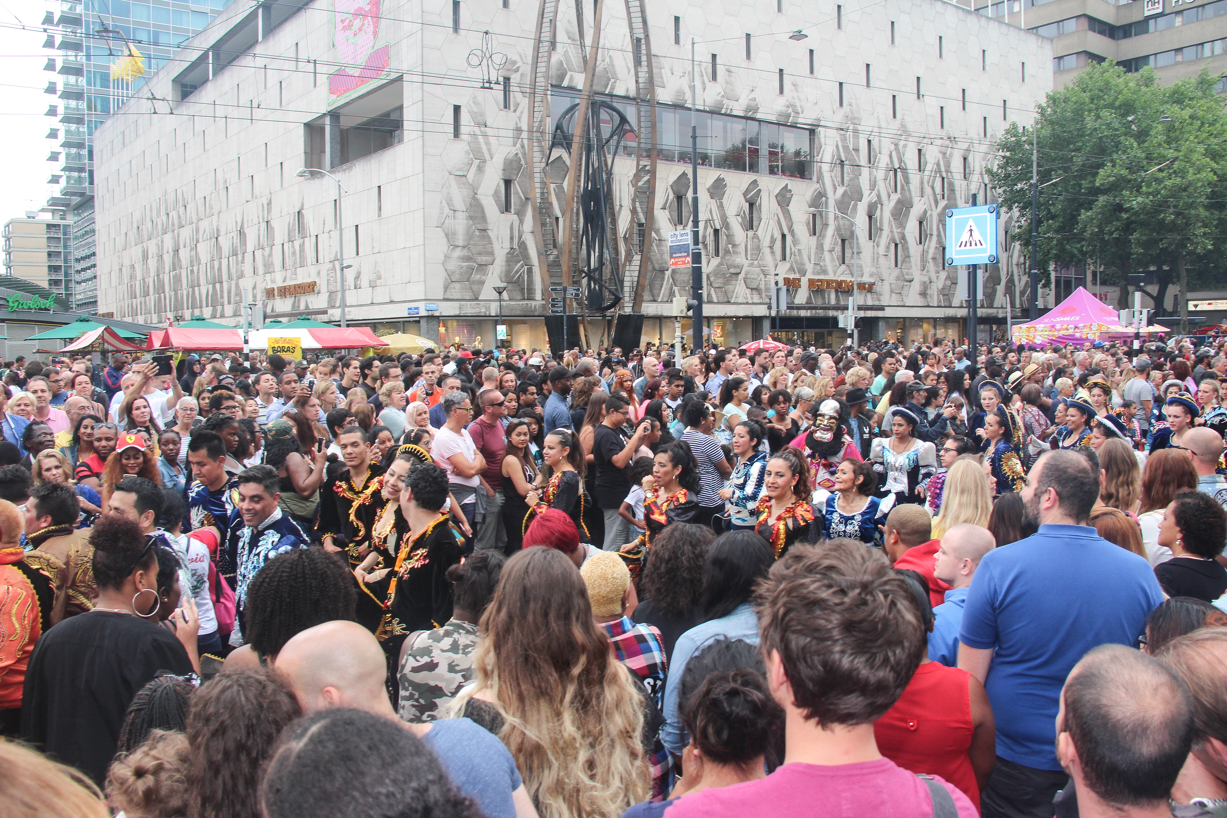 Big crowds summercarnival Rotterdam